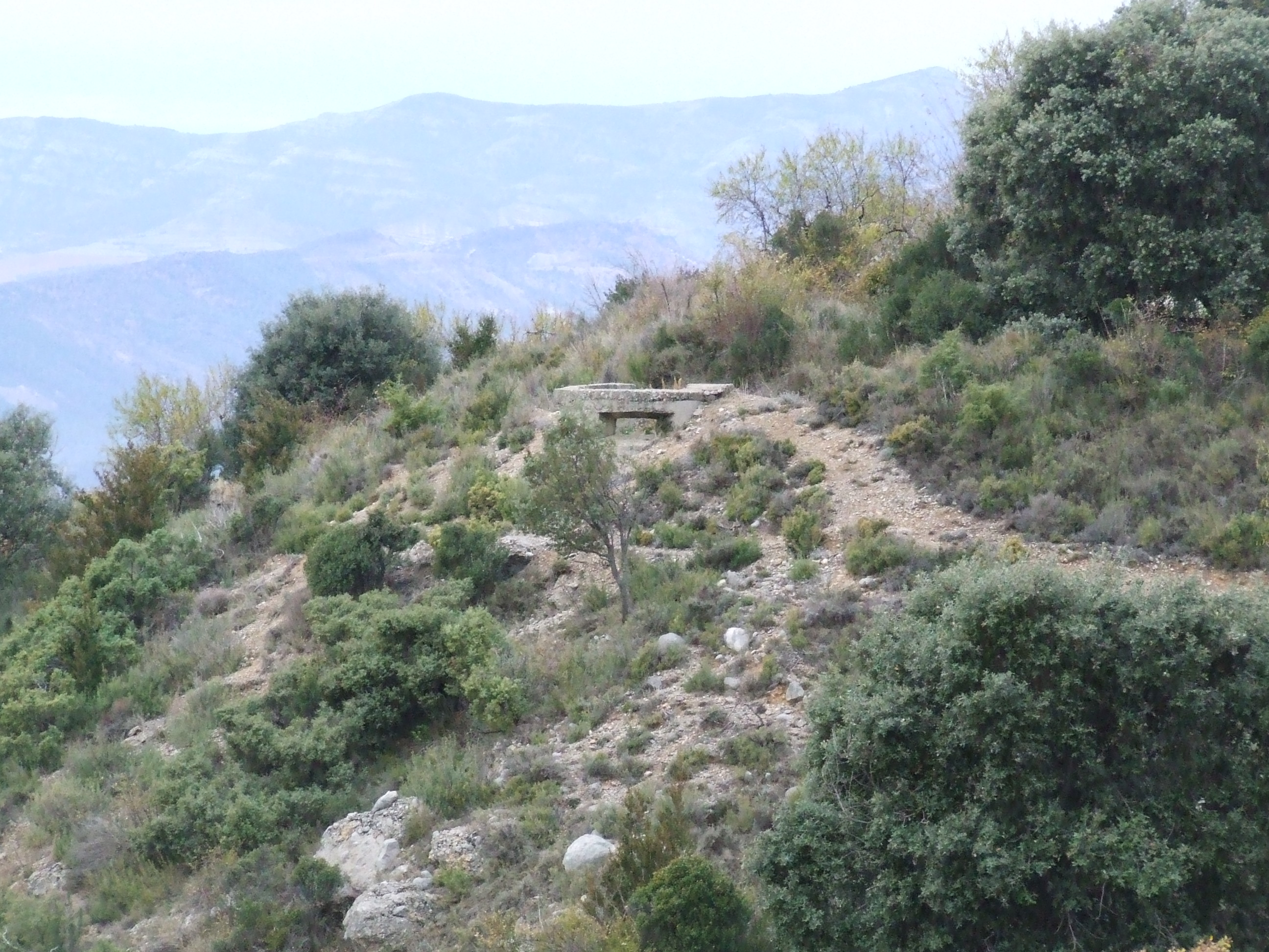 Maquis shrubland — in Conca de Dalt of Catalonia, in northeastern Spain.